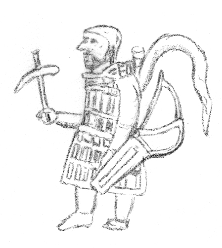 Indo-Scythian king Spalirises standing in armour. From his coins [1] and [2]